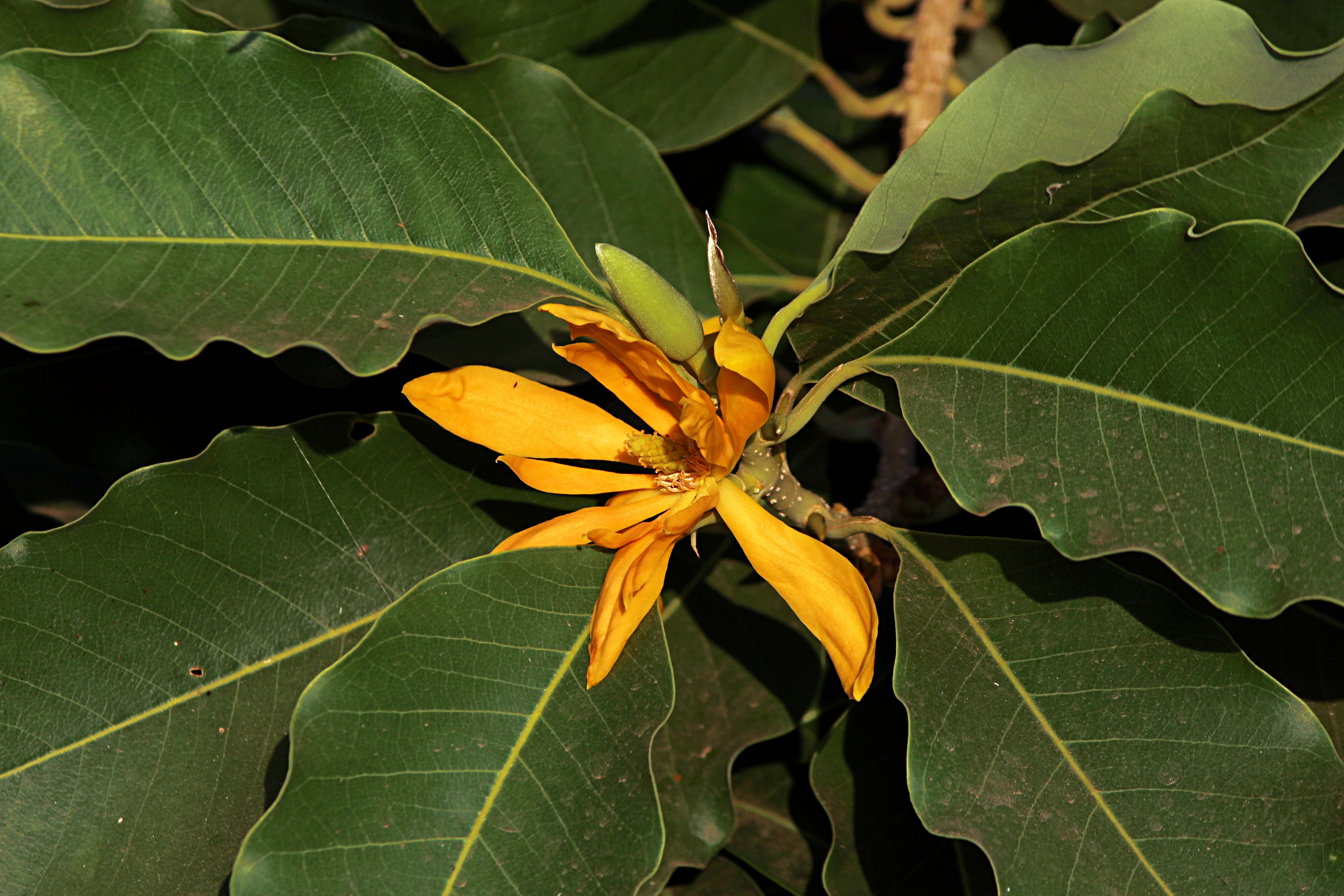 Magnolia champaca flowers from Villupuram district, Tamil Nadu